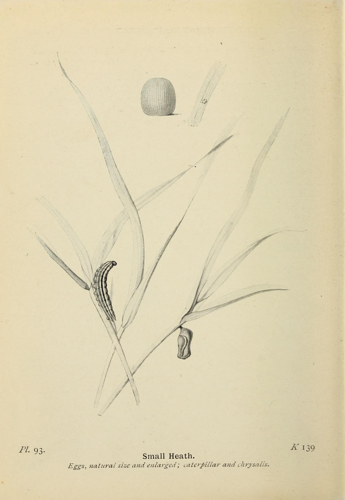 South1906Plate93